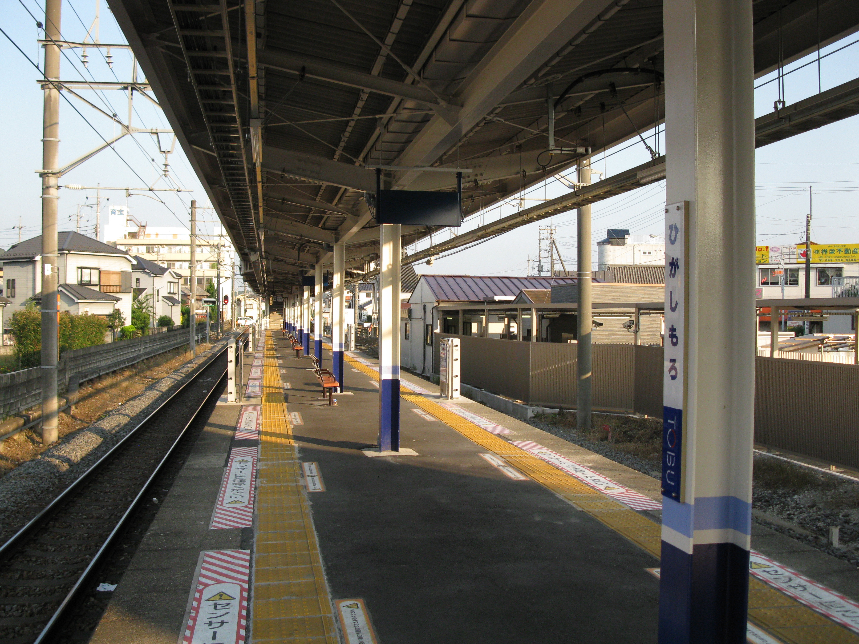 Higashi-Moro Station platform (Tōbu Railway Ogose Line)